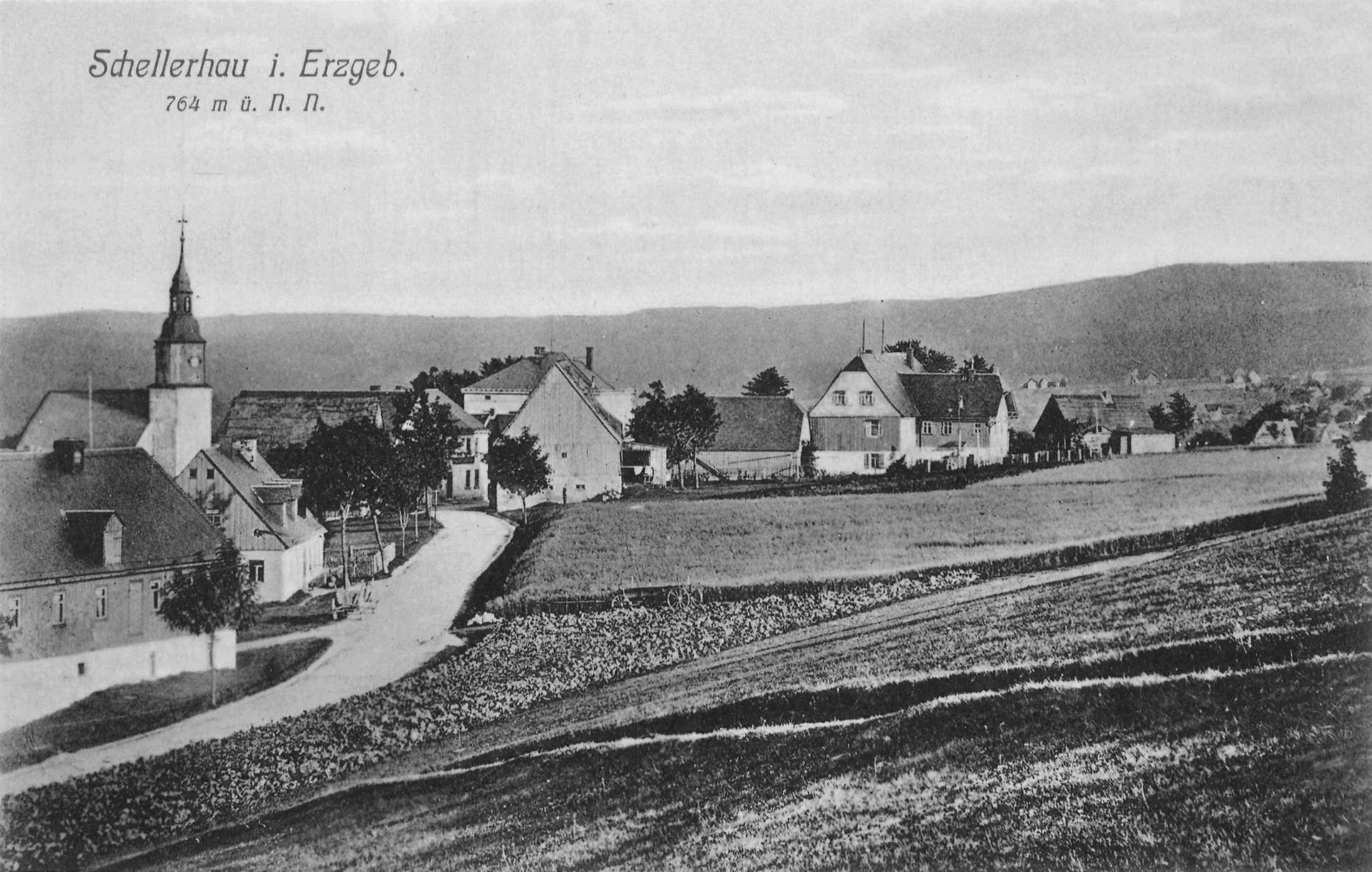 This image shows the village Schellerhau near Altenberg in the Ore Mountains in Saxony, Germany.